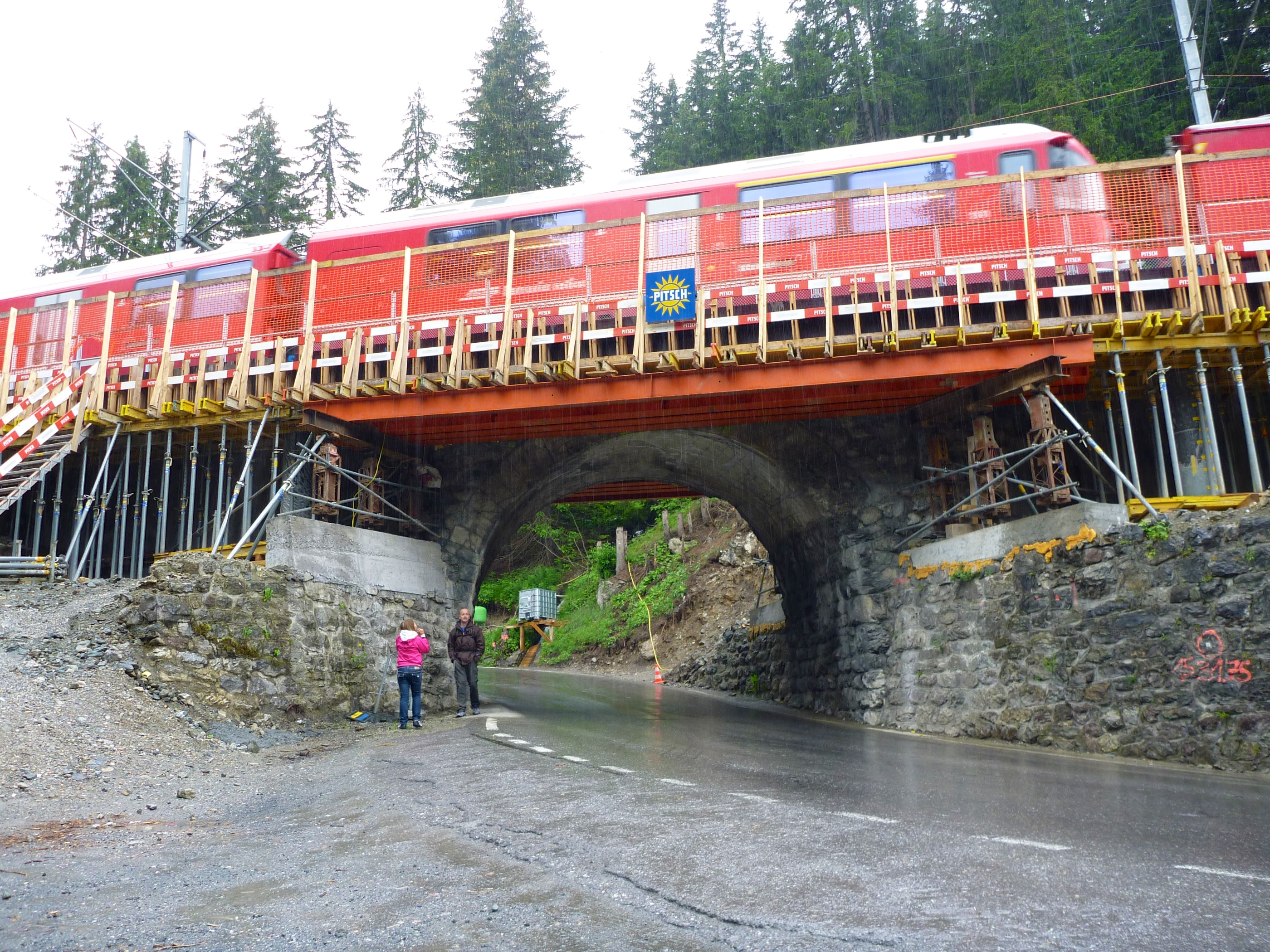 reconstruction of Rütlandbrücke with ABe 8/12 train, Chur-Arosa railway, 2012